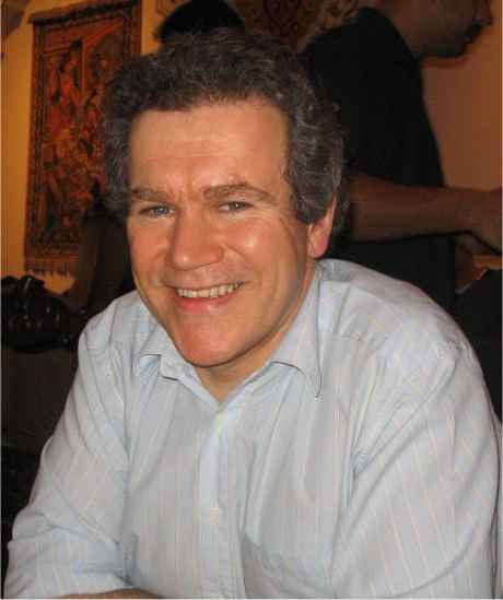 English philosopher Peter Millican